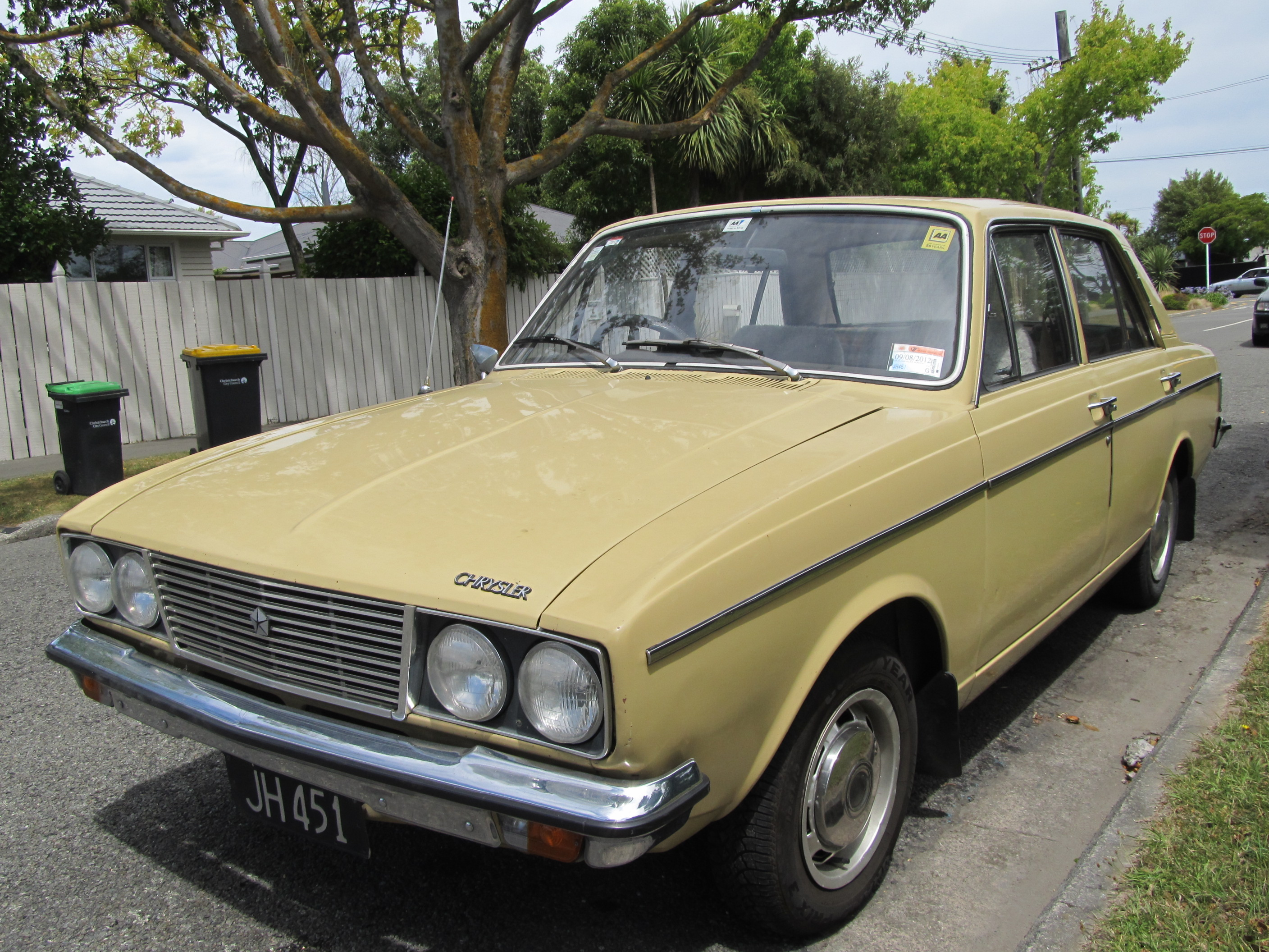 JH451 Yes, I have previously spotted this - - but it appeared just around the corner from me last month, and seeing as it's a rare Chrysler-badged Hunter, I thought it was worth another, better picture. It literally is utterly spotless. It's hard to believe anybody would buy a Hunter 13 years after launch, but then again, people in NZ tended to stay loyal to marques for years. Beige doesn't seem to have been a popular colour for the Hunter...